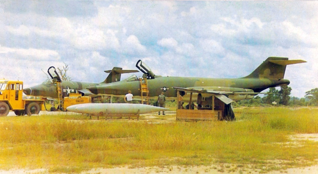 Two U.S. Air Force McDonnell RF-101A Voodoo (the aft one is s/n 54-1512) from the 33rd Tactical Group at Tan Son Nhut Air Base, Vietnam, circa 1965.